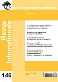 Exemple d'un numero de la RInt